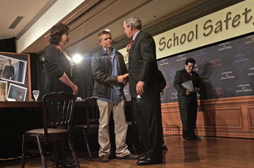 President George W. Bush talks with former Columbine High School student Craig Scott during a panel discussion on school safety at the National 4-H Conference Center in Chevy Chase, Md., Tuesday, Oct. 10, 2006. "All of us in this country want our classrooms to be gentle places of learning, places where people not only learn the basics -- basic skills necessary to become productive citizens, but learn to relate to one another," said President Bush. "And our parents I know want to be able send their child or children to schools that are safe places."